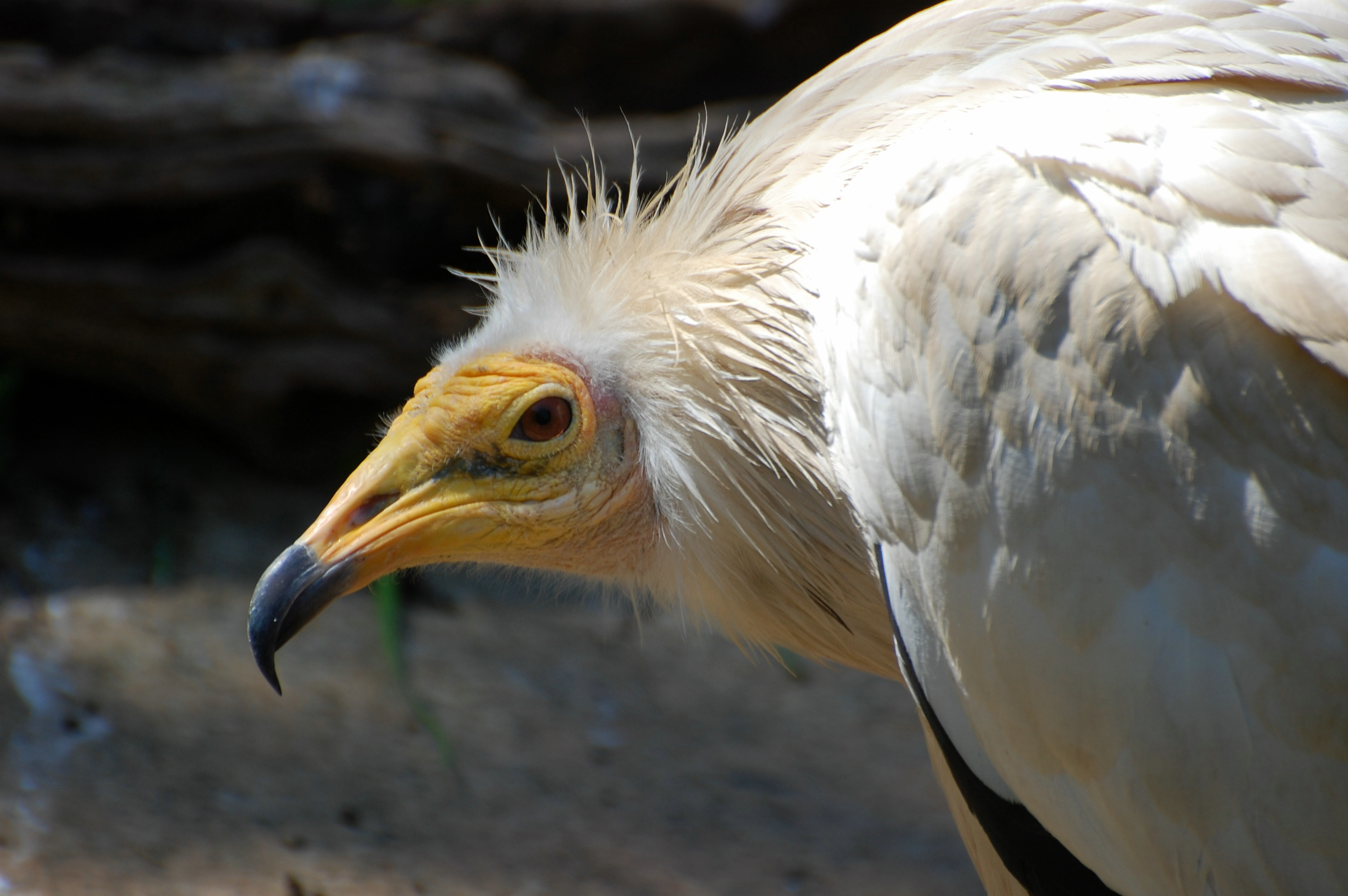 An Egyptian Vulture at San Diego Zoo, USA.